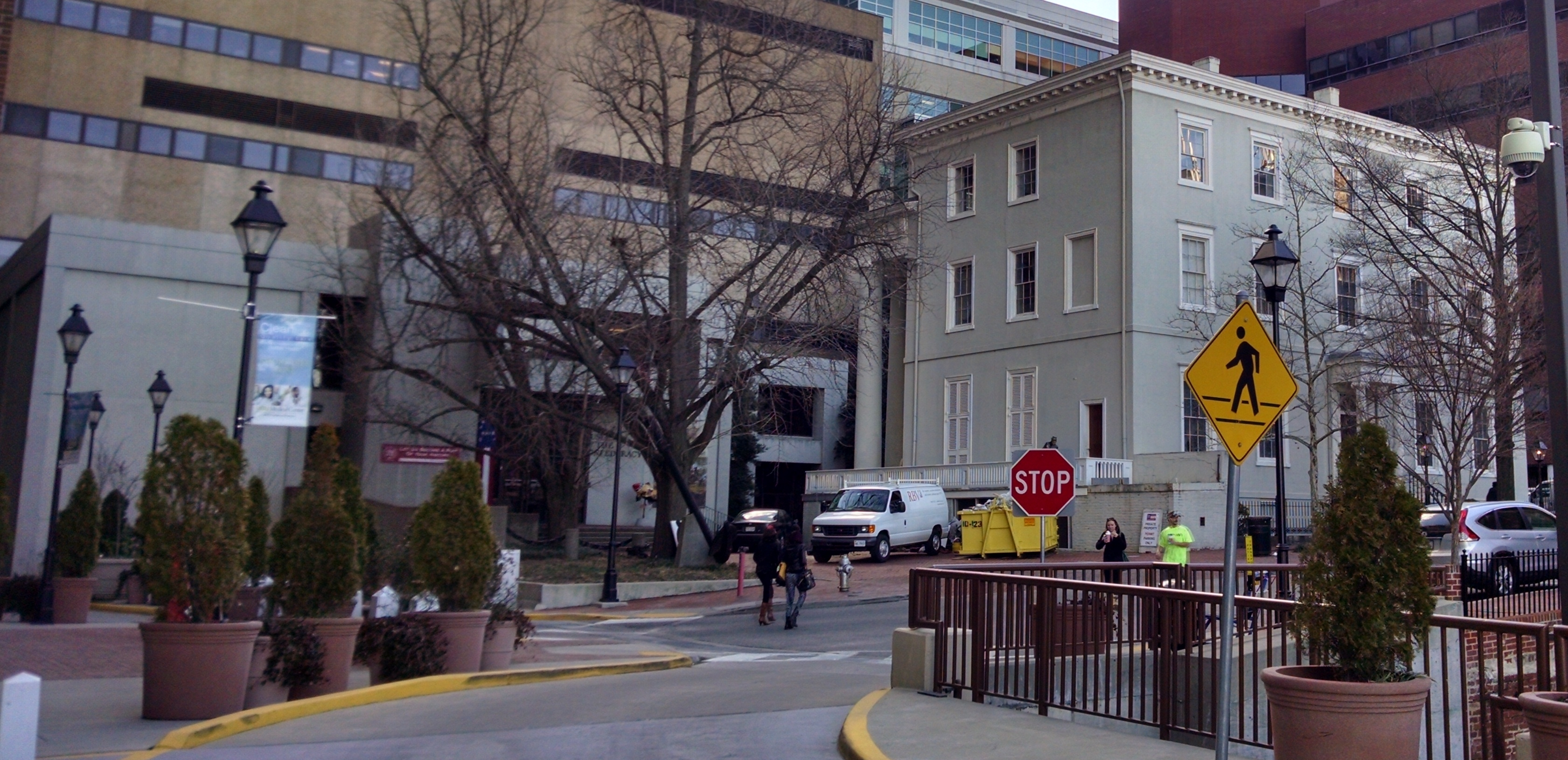 Museum of the Confederacy (left) and the White House of the Confederacy